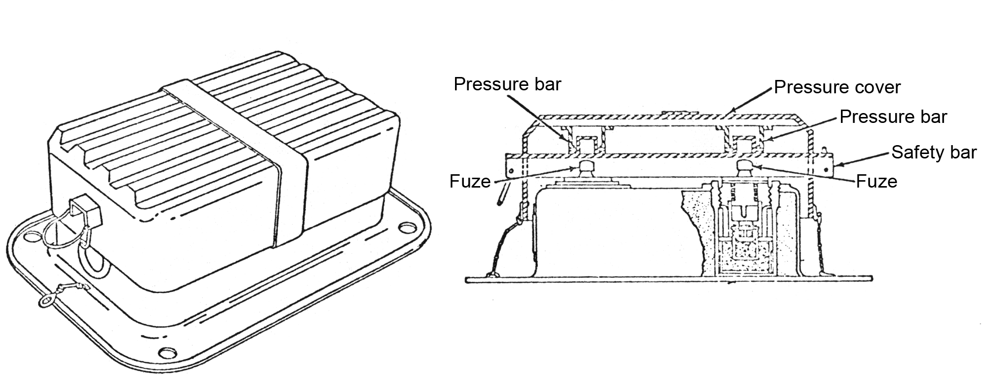 A Model 1936 (Mle 1936) French light anti-tank landmine